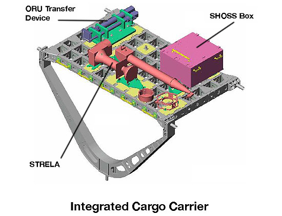 Integrated Cargo Carrier (ICC) STS-96 A project, initiated in 1997 by the companies Spacehab and Astrium North America comprising a family of flight proven and certified cross-the-bay cargo carriers designed to fly inside the Space Shuttle cargo bay, installed either horizontally or vertically, and able to carry up to 8000 lbs. of unpressurized cargo into orbit.